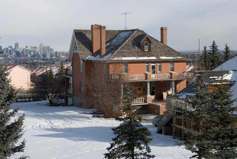 Wrestling's Hart Family Residence at 435 Patina Place, Patterson Heights, overlooking downtown Calgary Alberta. Photo by Chuck Szmurlo taken Feb 25 2007 with a Nikon D200 and 28-70 f2.8 lens.